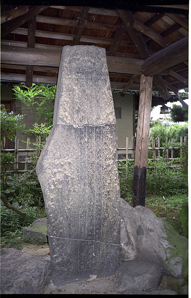 Ujibashi Danpi, owned by Hashi-dera Temple in Kyoto